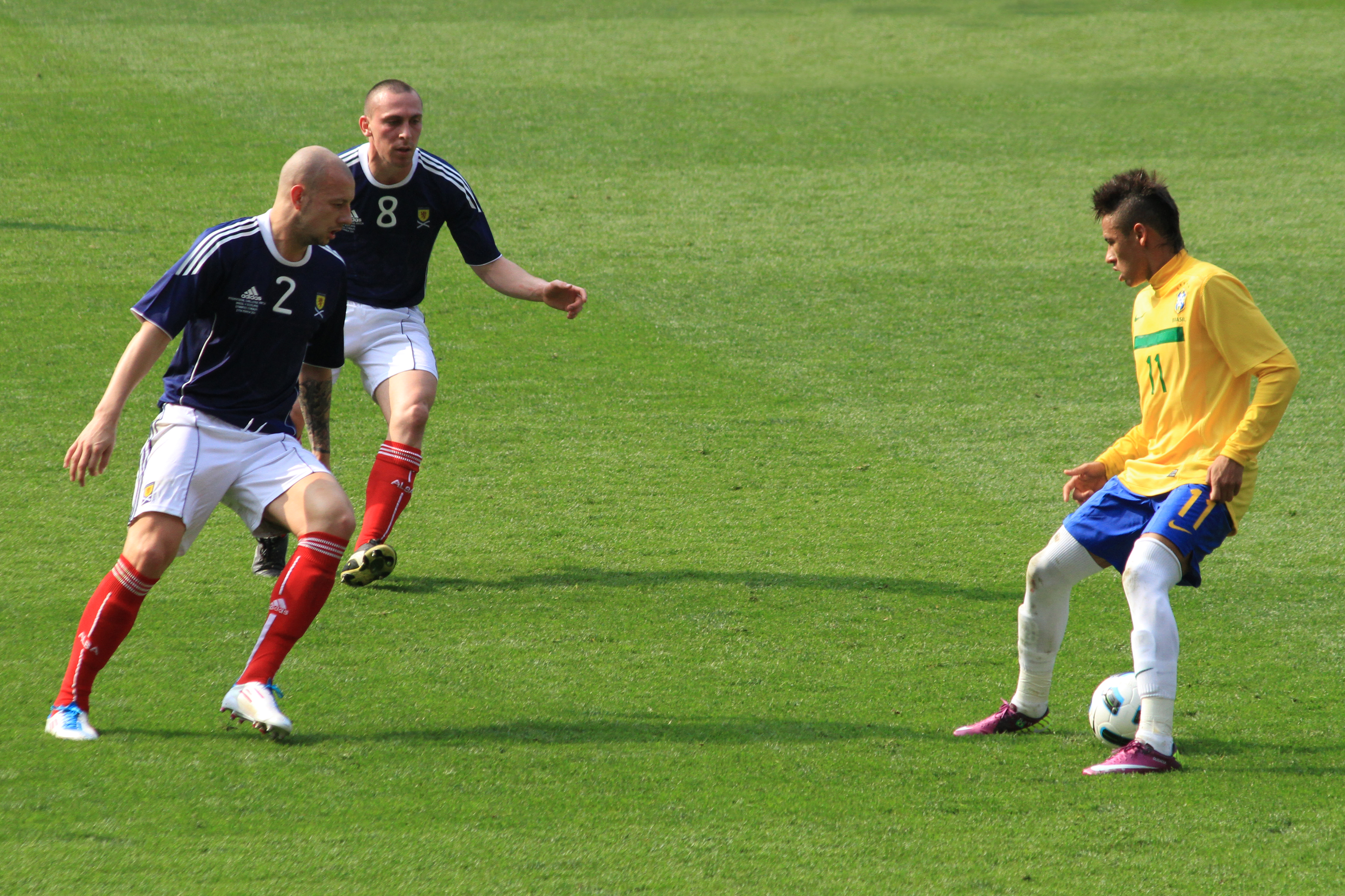 Alan Hutton, Scott Brown and Neymar